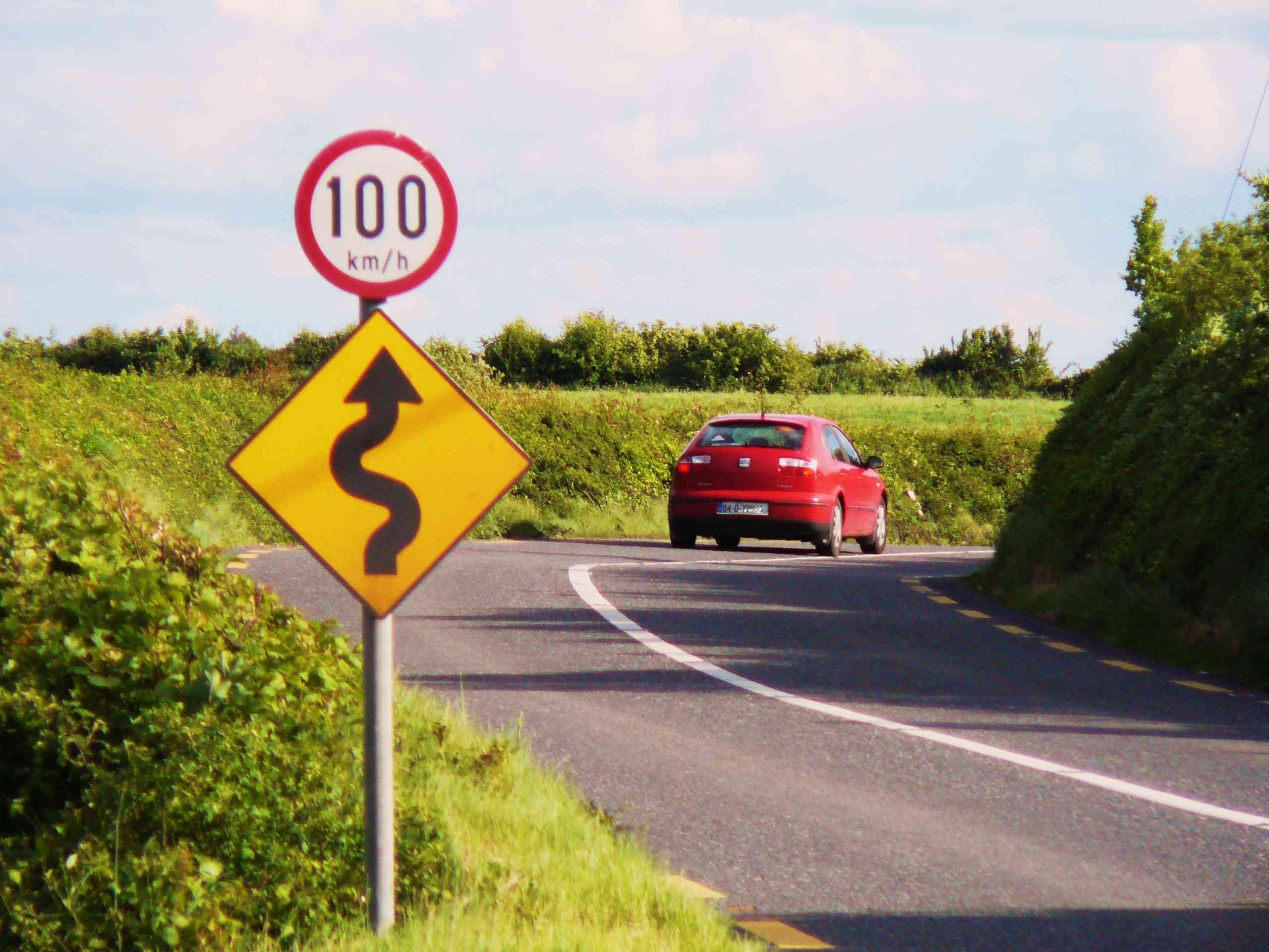 On national roads in Ireland, all dangerous bends are recommended to be driven at 100 km/h (66 mph), according to the NRA (National Roads Authority)'s signposting on bends across the country. Across Europe such dangerous bends are signposted with a 70 or 80 km/h speedlimit.